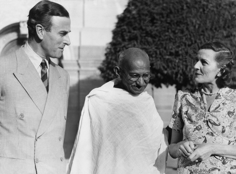 Gandhi with Lord and Lady Mounbatten